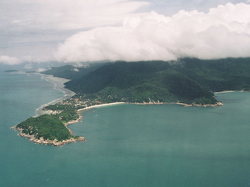 Koh Phangan (Surat Thani, Thailand). Seen from Southeast.In front is the southern tip of the island (Laem Haad Rin), connected with the main island by the isthmus Haad Rin. Especially the eastern beach of the isthmus, Haad Rin Nok, the long white coastal part in the middle of the picture, is famous for its Full Moon Parties. To the left are, from bottom to top, the bays Ban Kai, Ban Tai and Bang Charu, with the small island Ko Tae Nai at the left horizon. To the right is the bay Haad Yuan.